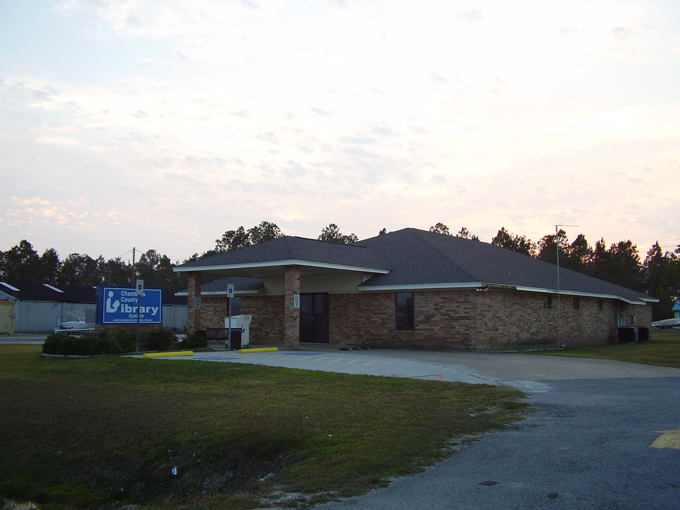 Juanita Hargraves Memorial Branch Library in Chambers County, Texas, United States